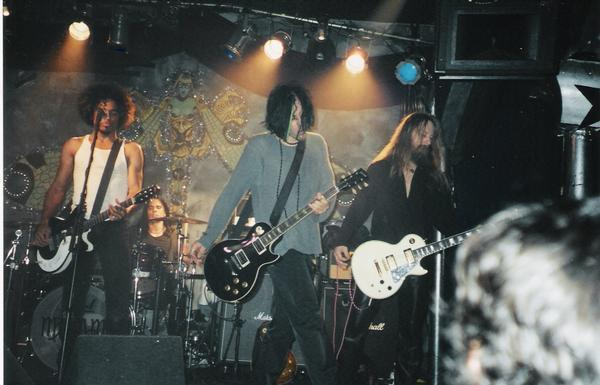 Nico on stage with Jerry Cantrell and William DuVall